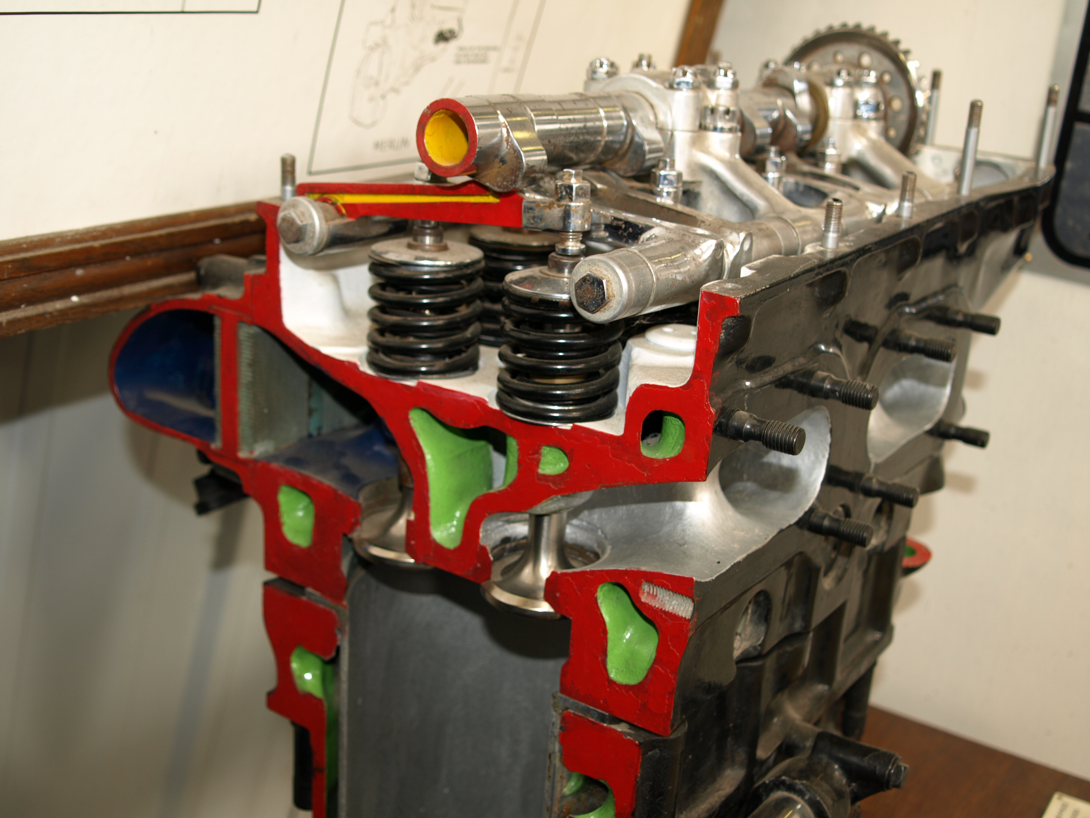 Rolls-Royce Merlin aircraft engine sectioned cylinder head (Shuttleworth Collection)